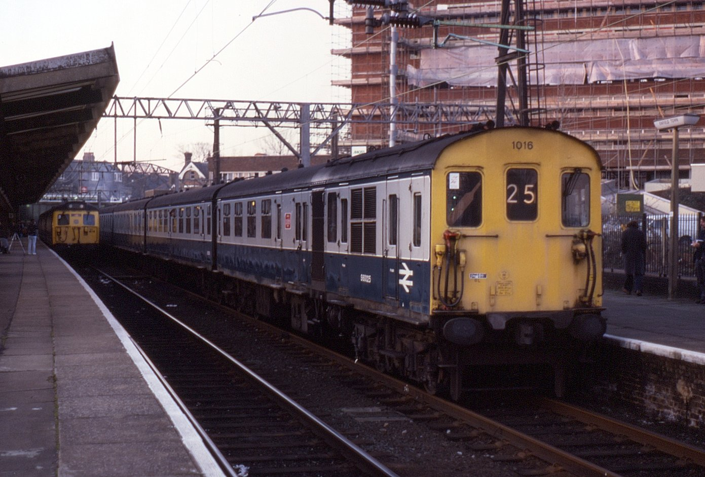 Southern Electric Group (SEG) chartered Hastings Class 202 (6L) DEMU no. 1016 for its "Capital Carousel" tour on 25 January 1986. Covering various non-passenger curves and branches that saw nothing but EMUs on a daily basis was enough to get many non-tour passenger's heads turning! Seen at Enfield Town during a photo stop with a class 305 EMU on the opposite platform.